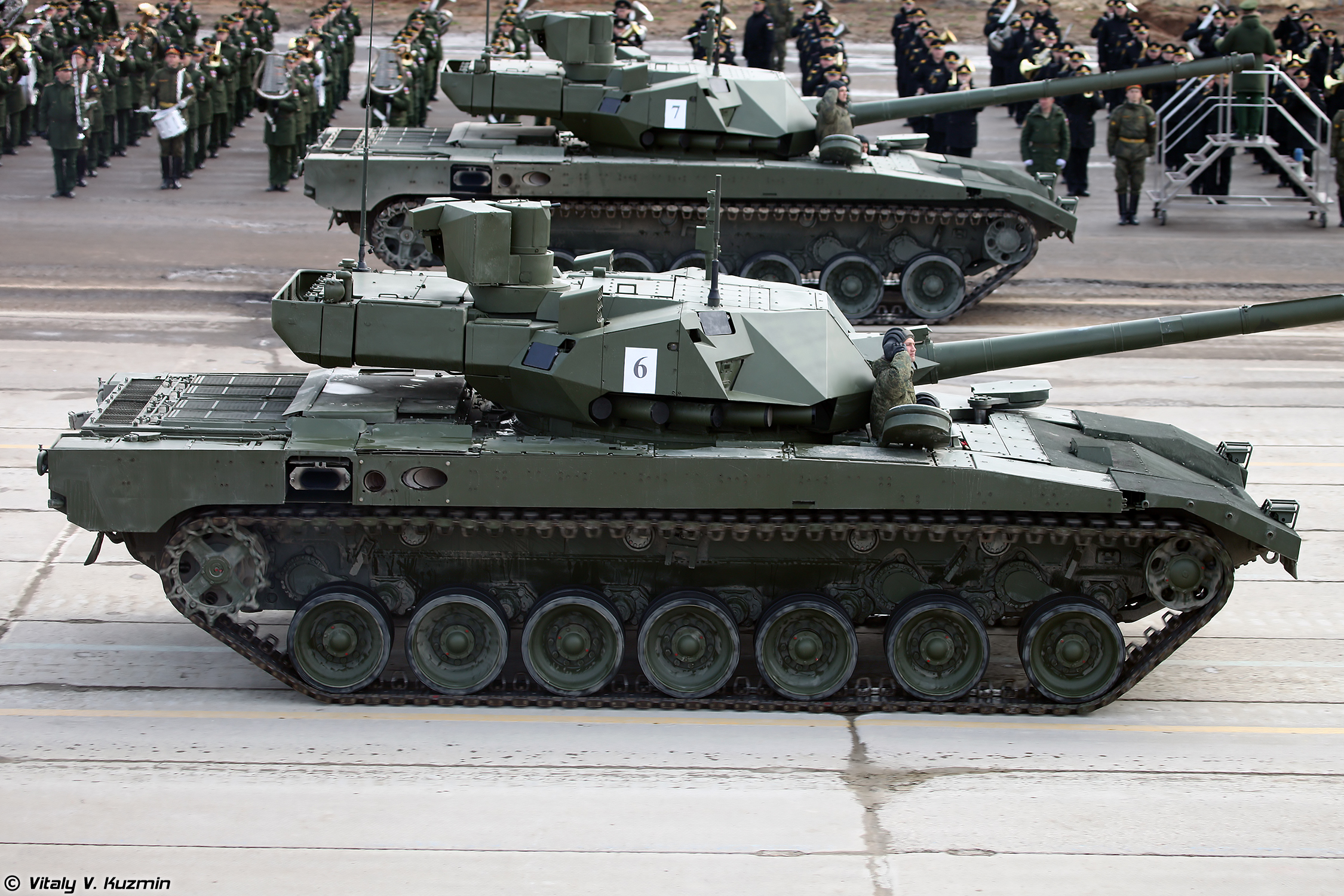 Main battle tank T-14 object 148 on heavy unified tracked platform Armata